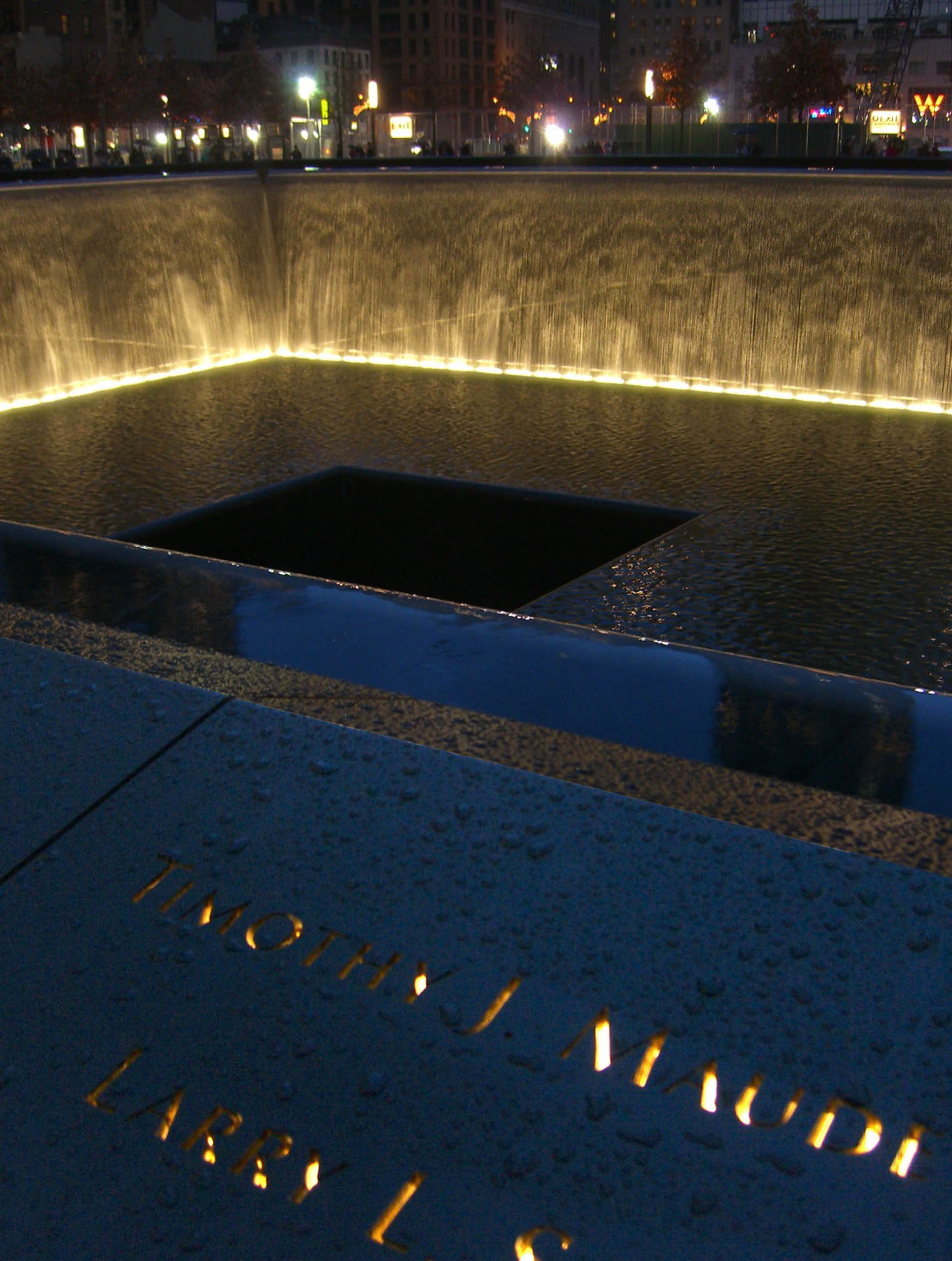 The name of Timothy Maude, the highest ranking military officer killed in the September 11 attacks, is seen among those of other people killed at the Pentagon, inscribed on bronze panel S-74 of the South Pool of the National September 11 Memorial in Manhattan, as seen on December 6, 2011. This photo was created by Luigi Novi. If you have any questions, you can contact me by sending me an email or User talk:Nightscream